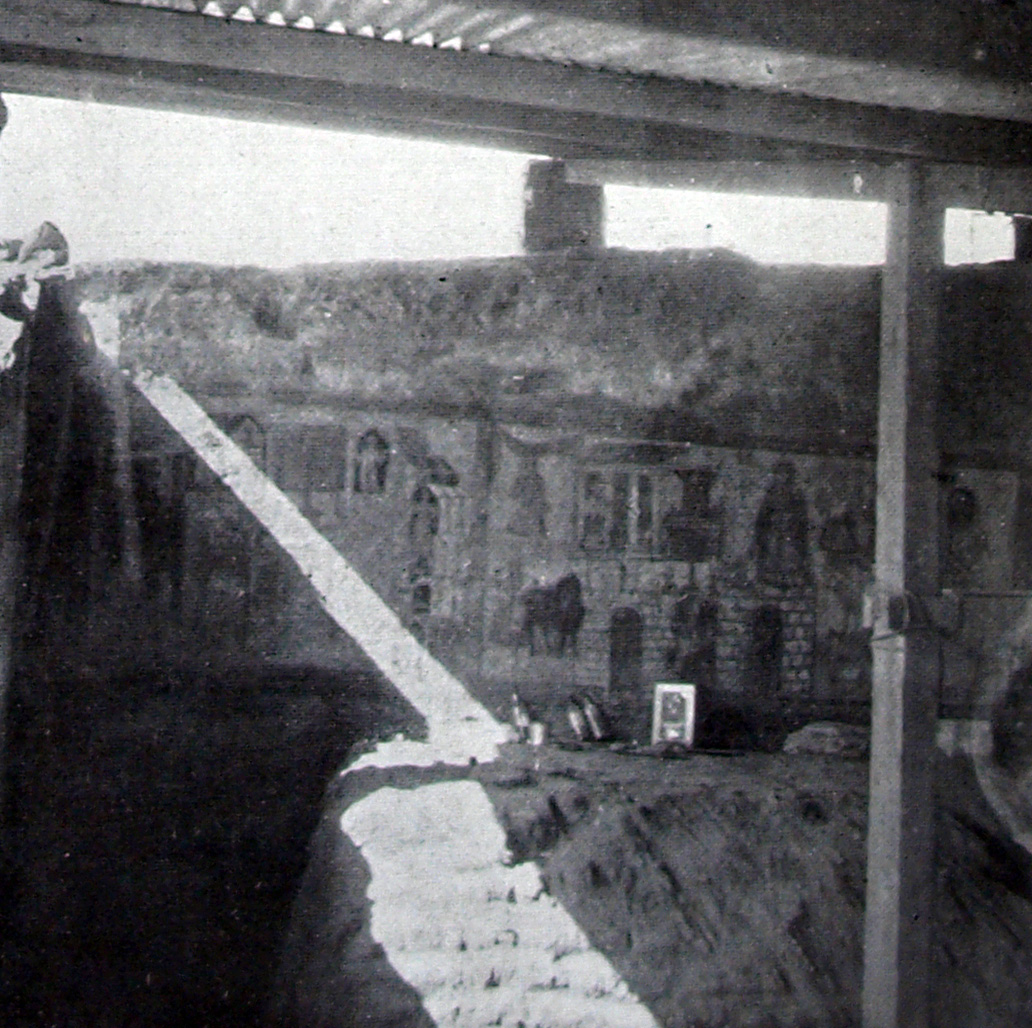 The shelter over the Dura Europos synagogue paintings in 1933. Photograph from an article announcing the discovery of the Dura Europos synagogue in the French newspaper L'Illustration.